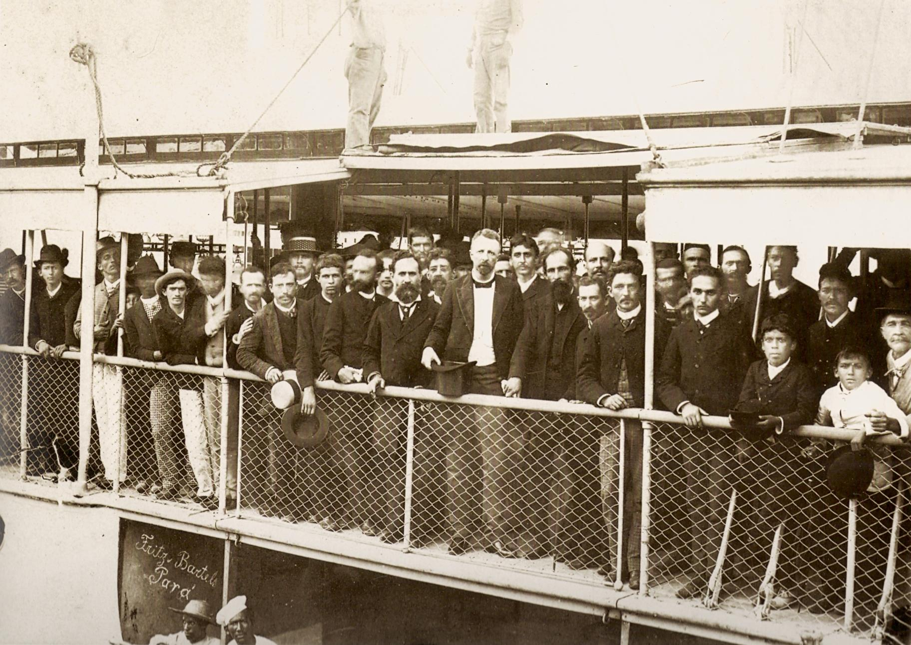 Gaston d´Orléans, the count of Eu, surrounded by a crowd on his arrival the northern region of Brazil.